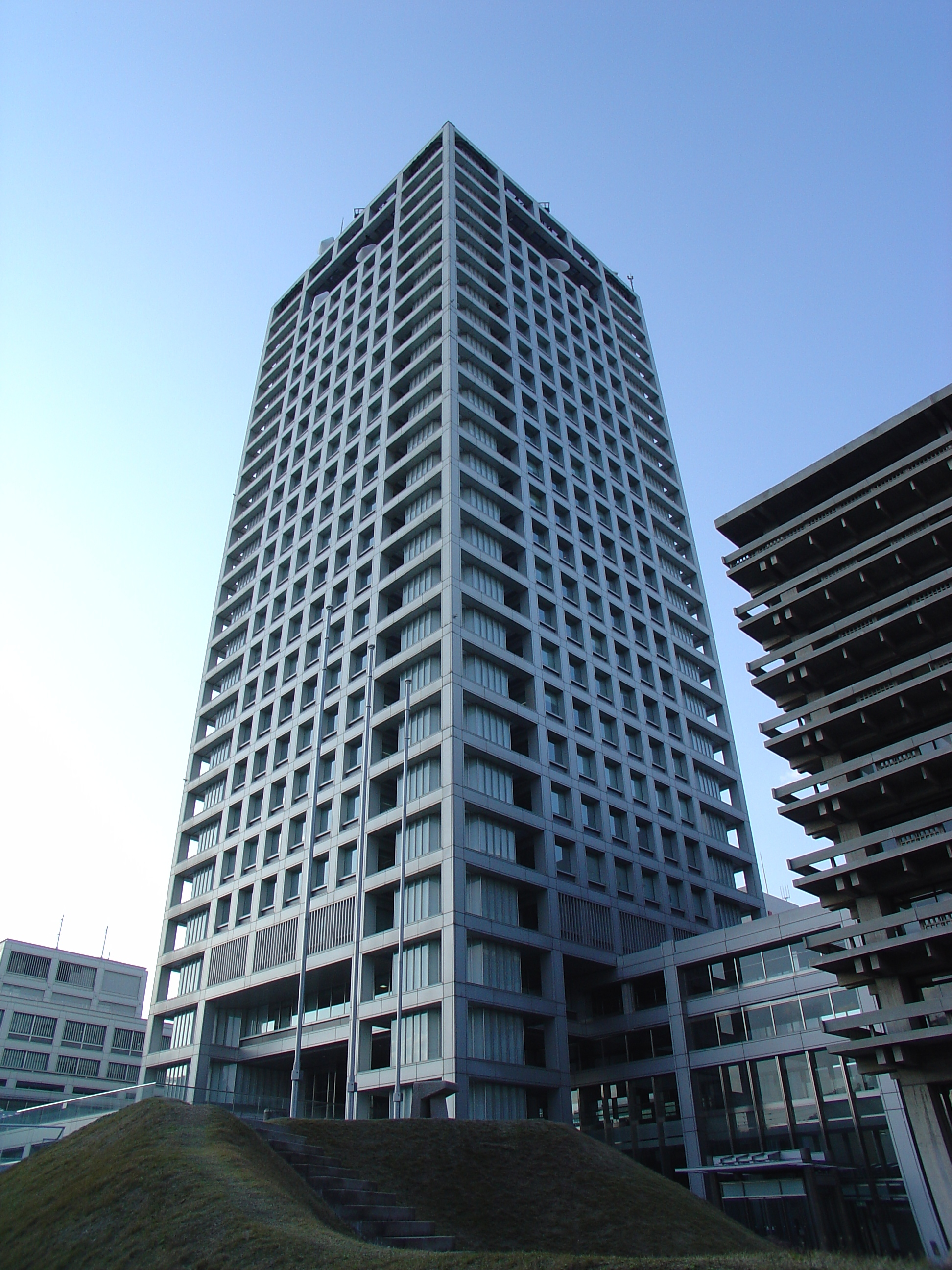 香川県庁本館, the main office of Kagawa Prefecture